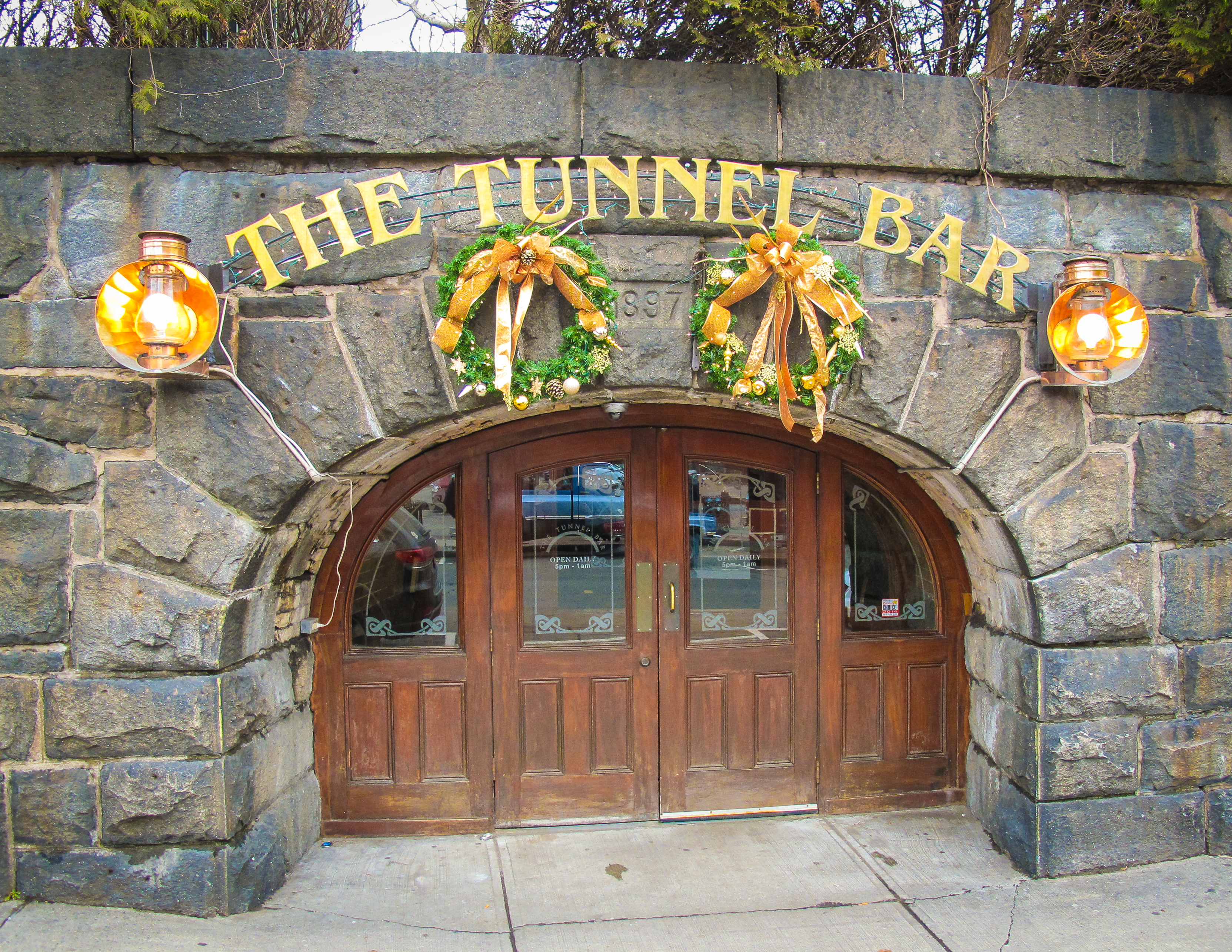 An image of the entrance to the Tunnel Bar in Northampton, Massachusetts. The bar is located in a passage way under the former Union Station building.